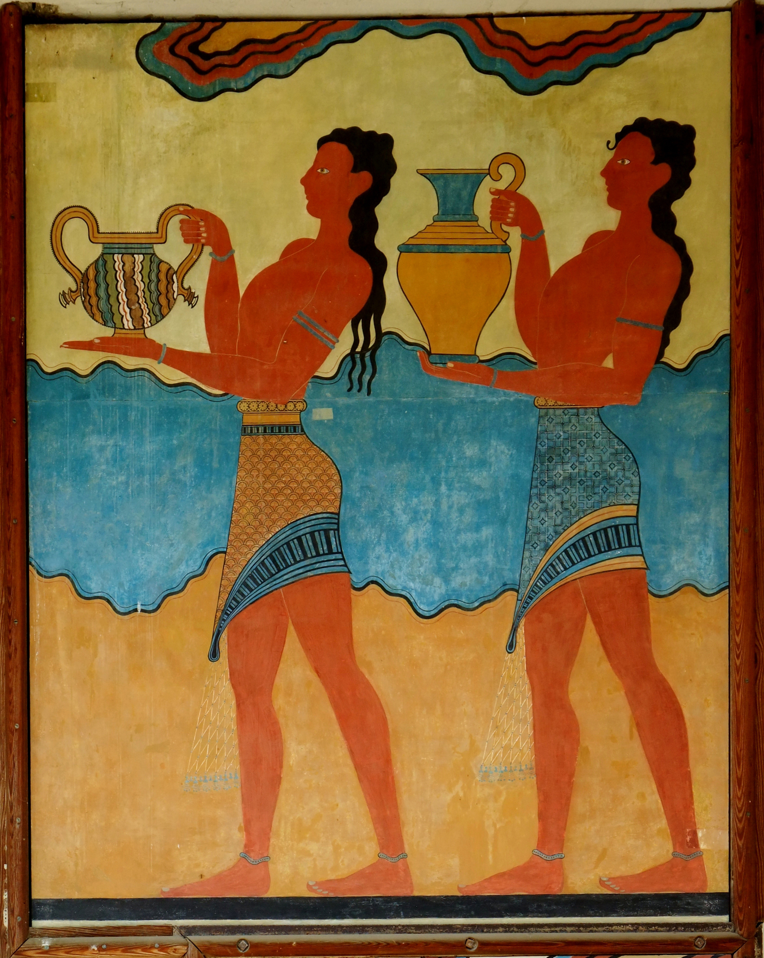 Palace of Knossos, Procession fresco, Crete, Greece